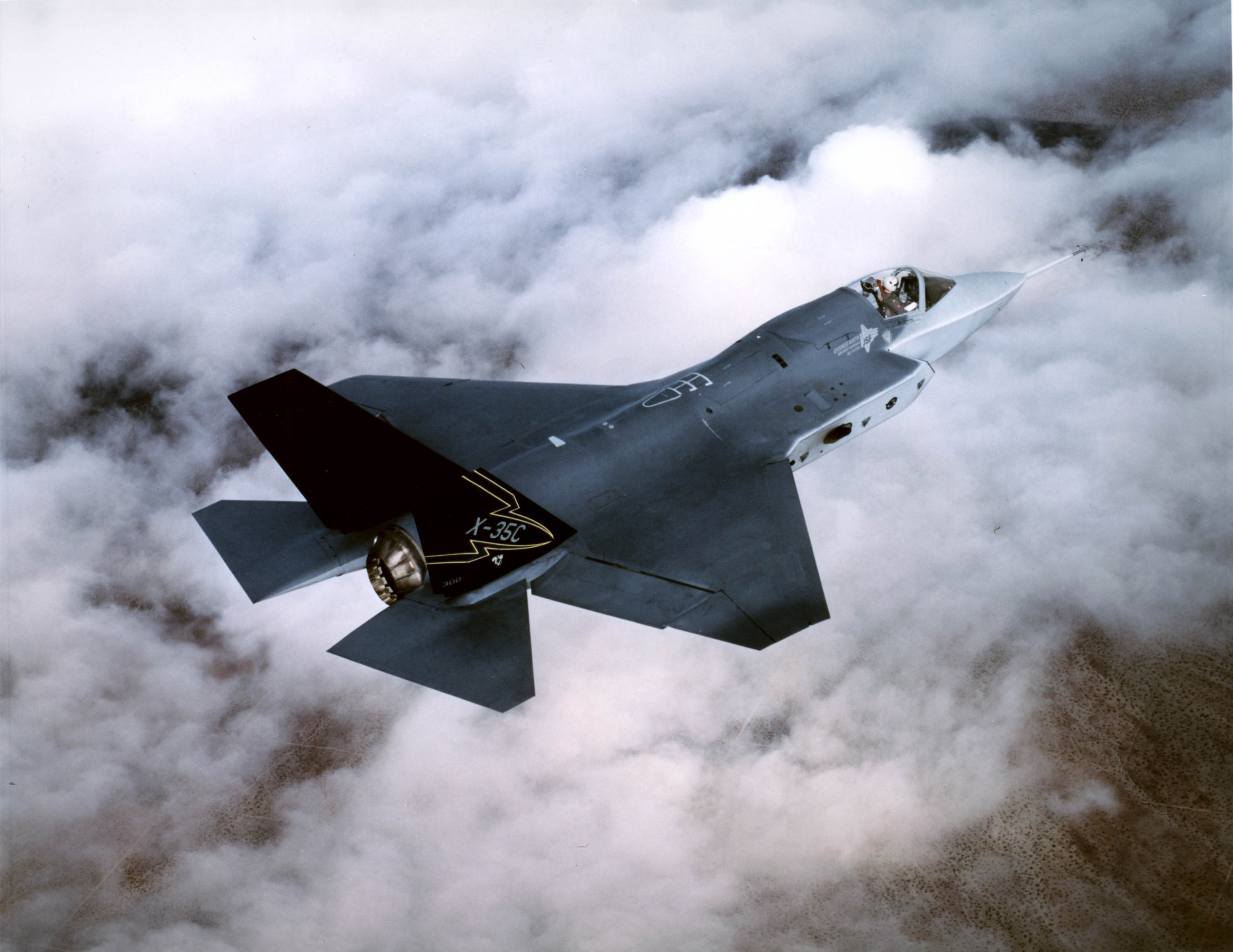 The X-35, Joint Strike Fighter from Lockheed Martin nears completion of flight testing at Edwards Air Force Base, Calif., in 2001. The JSF is being built in three variants: a conventional take-off and landing aircraft (CTOL) for the US Air Force; a carrier based variant (CV) for the US Navy; and a short take-off and vertical landing (STOVL) aircraft for the US Marine Corps and the Royal Navy.